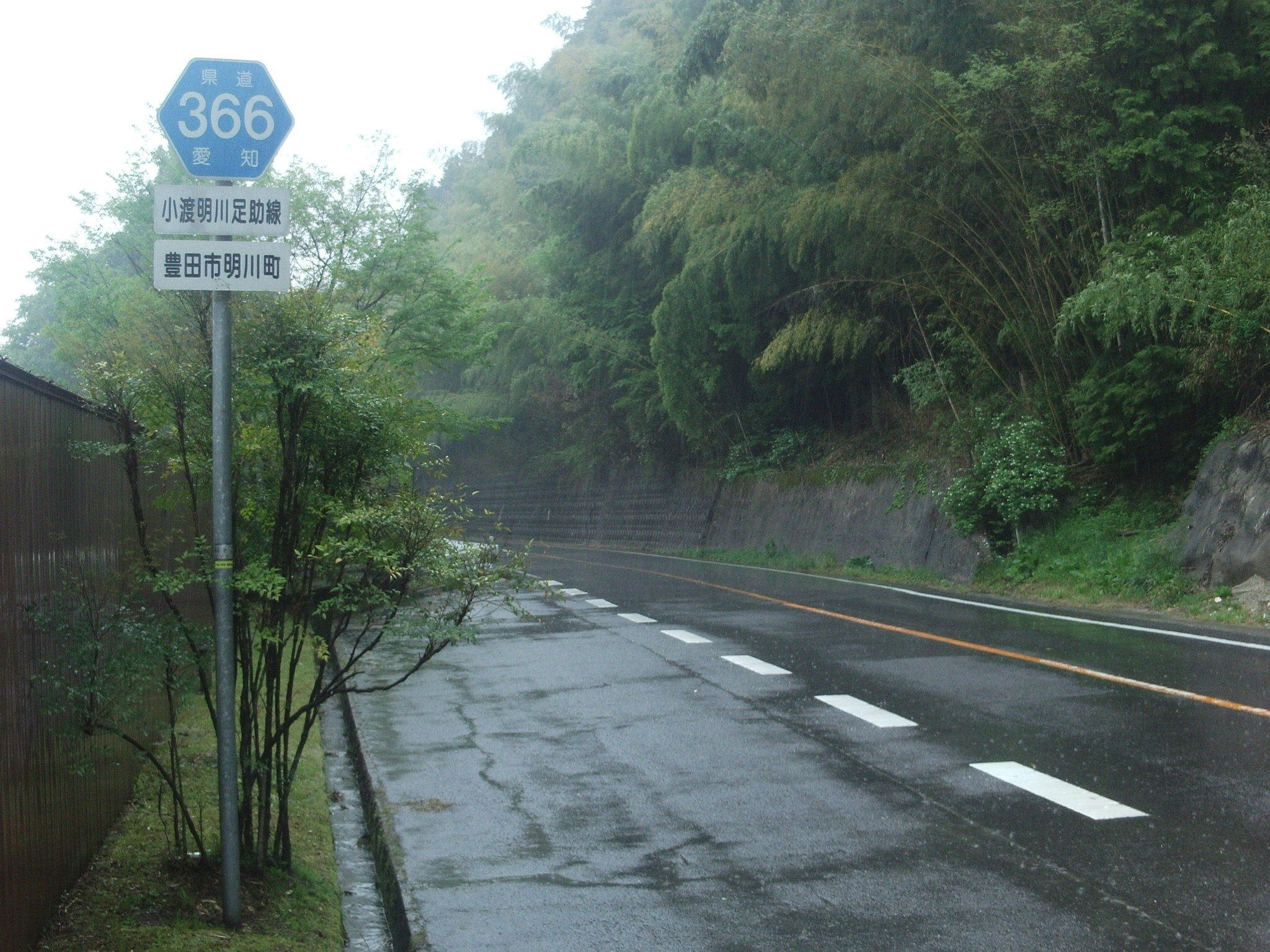 The Aichi Prefectural Road Route 366 in Asugawacho, Toyota City